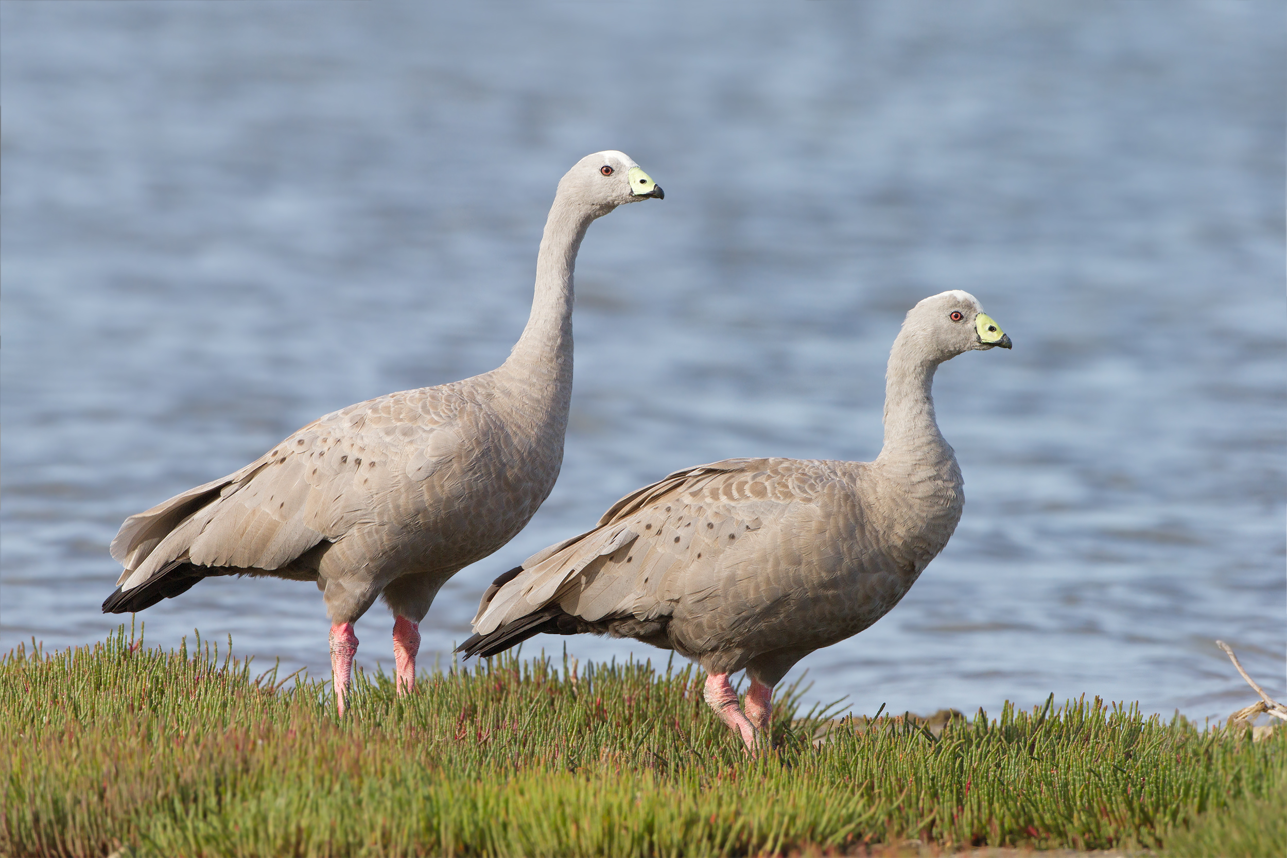 Cape Barren Geese (Cereopsis novaehollandiae), Orielton lagoon, Tasmania, Australia